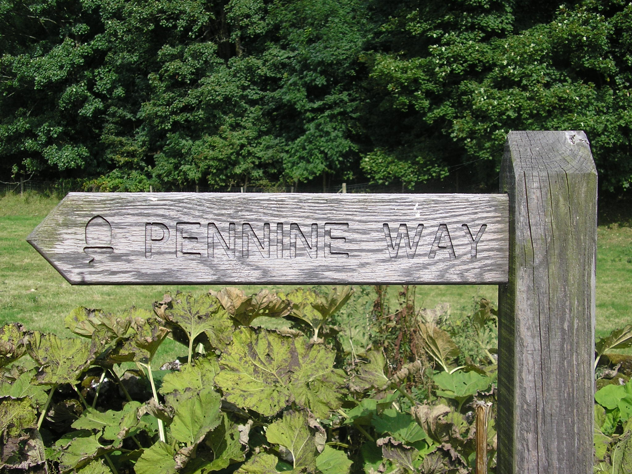 A Pennine Way sign near the village of Airton in North Yorkshire. "This was taken by me with my own camera."